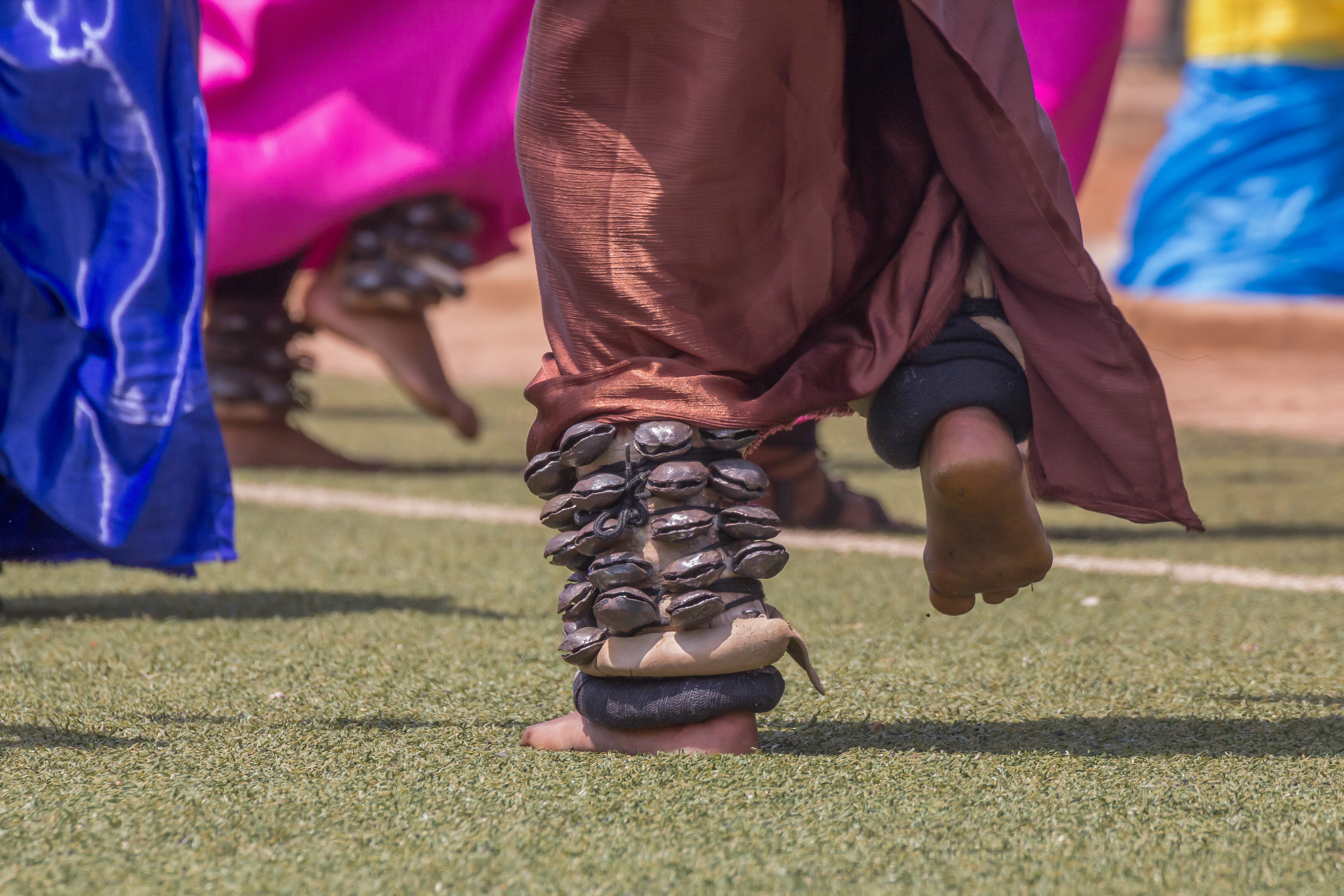 Intore dancer during the graduation festivities at Kicukiro stadium in Rwanda This is an image from Rwanda